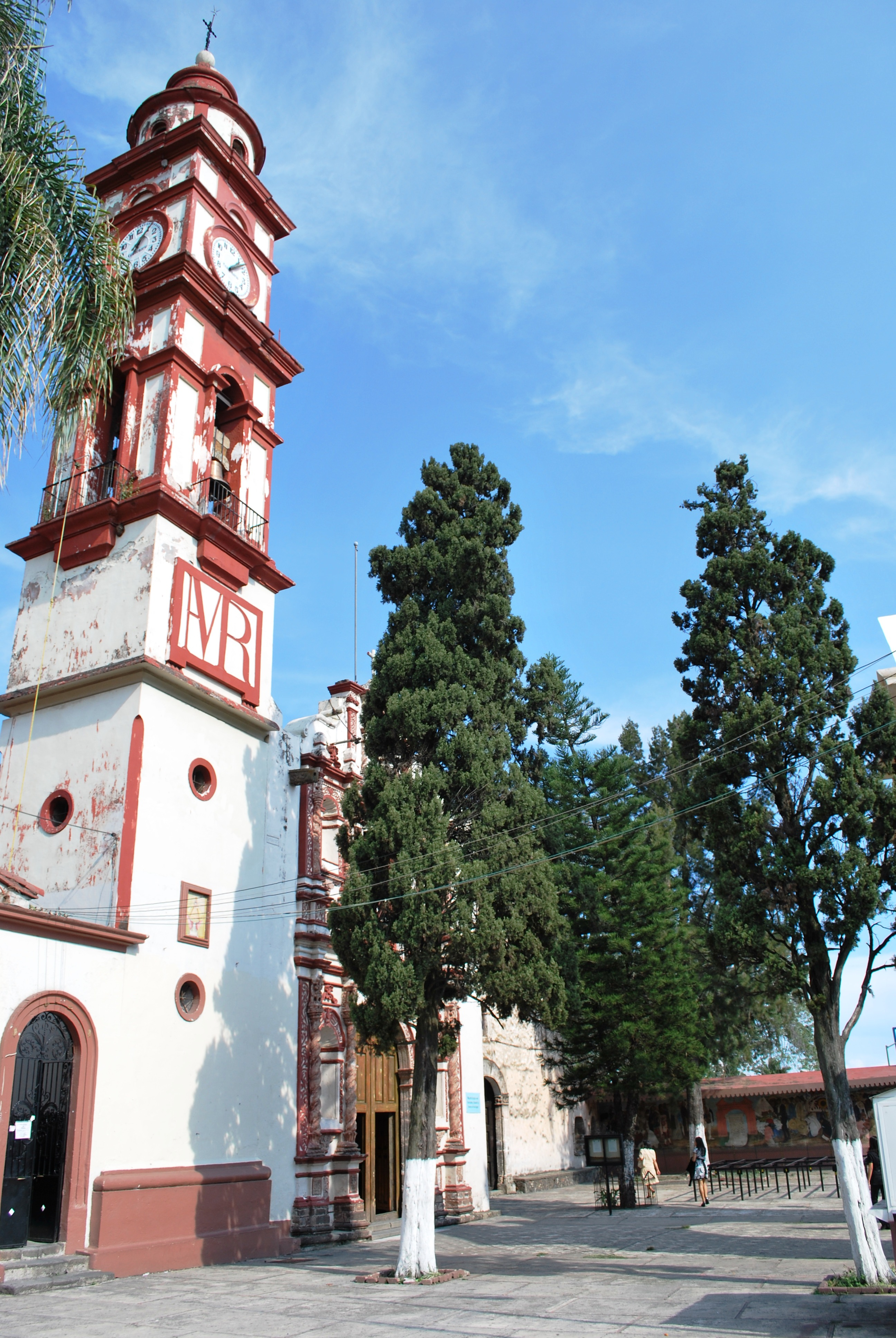 Atrium and facade in front of the Nuestra Señor de los Milagros de Tlaltenango in Tlaltenango, Cuernavaca, Morelos, Mexico